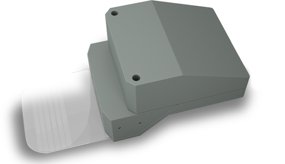 PD-14 Image